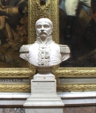 Buste of Claude Corbineau by Philippe Lemaire. War Gallery, castle of Versailles.